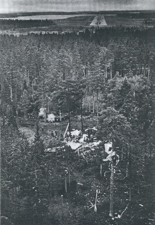 Wreckage of Douglas C-47A-35-DL (DC-3) aircraft (OH-LCA) of Aero O/Y near Mariehamn Airport in Jomala, Åland, Finland, following the accident of AY311 on 8 November 1963.